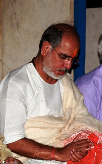 Hindu spiritual leader from Gujarat, India